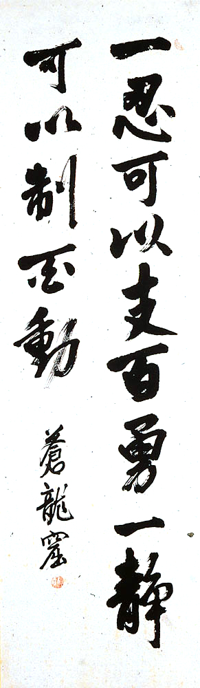 Calligraphy by Kawai Tsuginosuke (Kawai Tsugunosuke). Collection of the Nagaoka City Central Library.